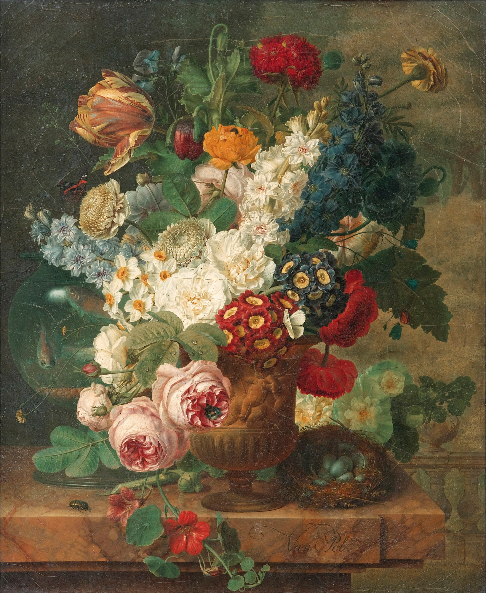 Vase with flowers and insects and a birds nest with blue eggs on a stone slab, signed below right (on the edge of the slab)